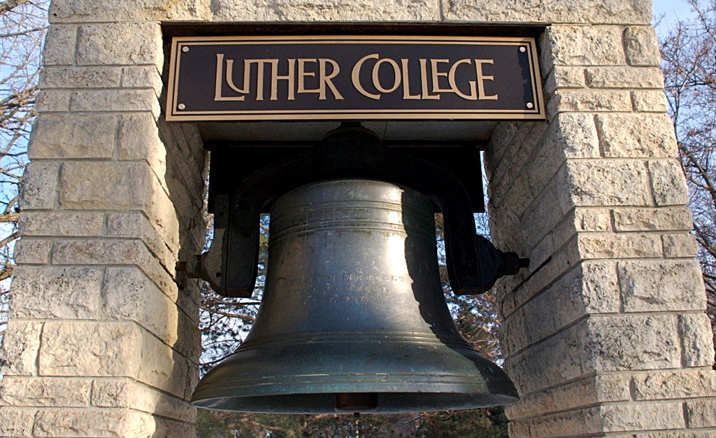 The big bell at Luther College, Decorah, Iowa, United States